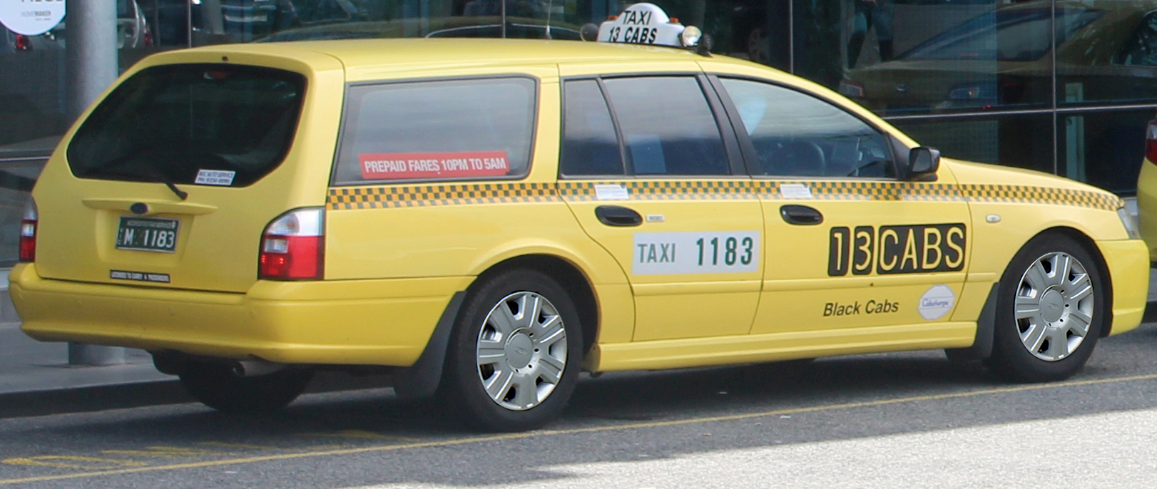 2009 Ford Falcon (BF III) XT station wagon, Black Cabs taxi. Photographed in Melbourne CBD, Melbourne, Australia Vehicle registration enquiry resultsJurisdictionVictoriaRegistrationM1183Chassis code6FPAAAJGWA9G63974Engine codeJGWA9G63974Compliance date2009-08Year of manufacture2009